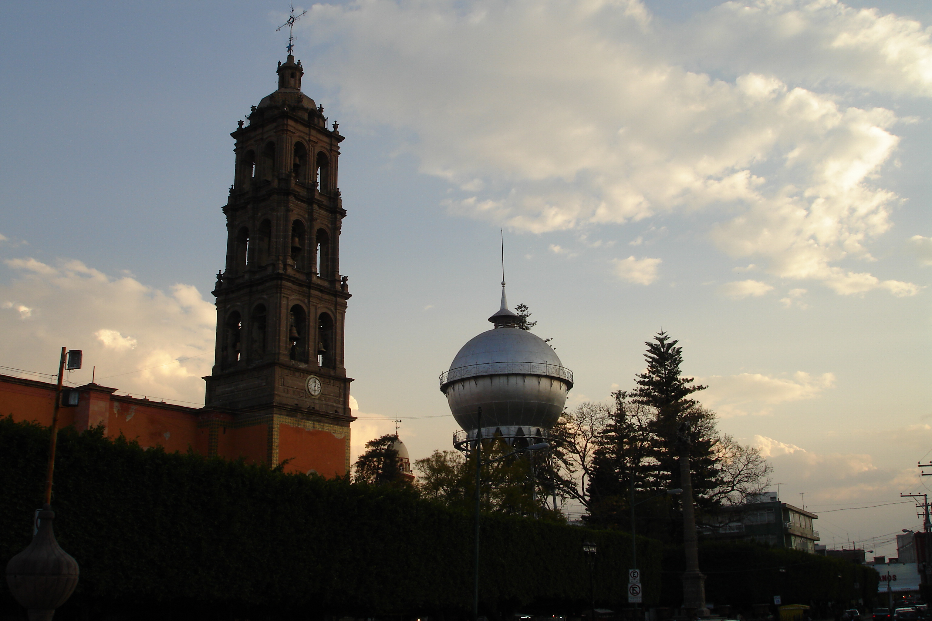 Temple of San Francisco bell tower at the Catedral de la Purísima Concepción, and the Bola del Agua (watertower). In Celaya, Guanajuato, México.